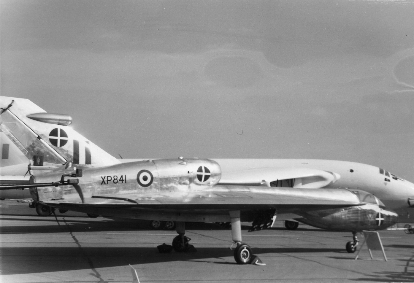 The Handley Page HP.115 delta wing test aircraft at the SBAC show, Farnborough in 1961